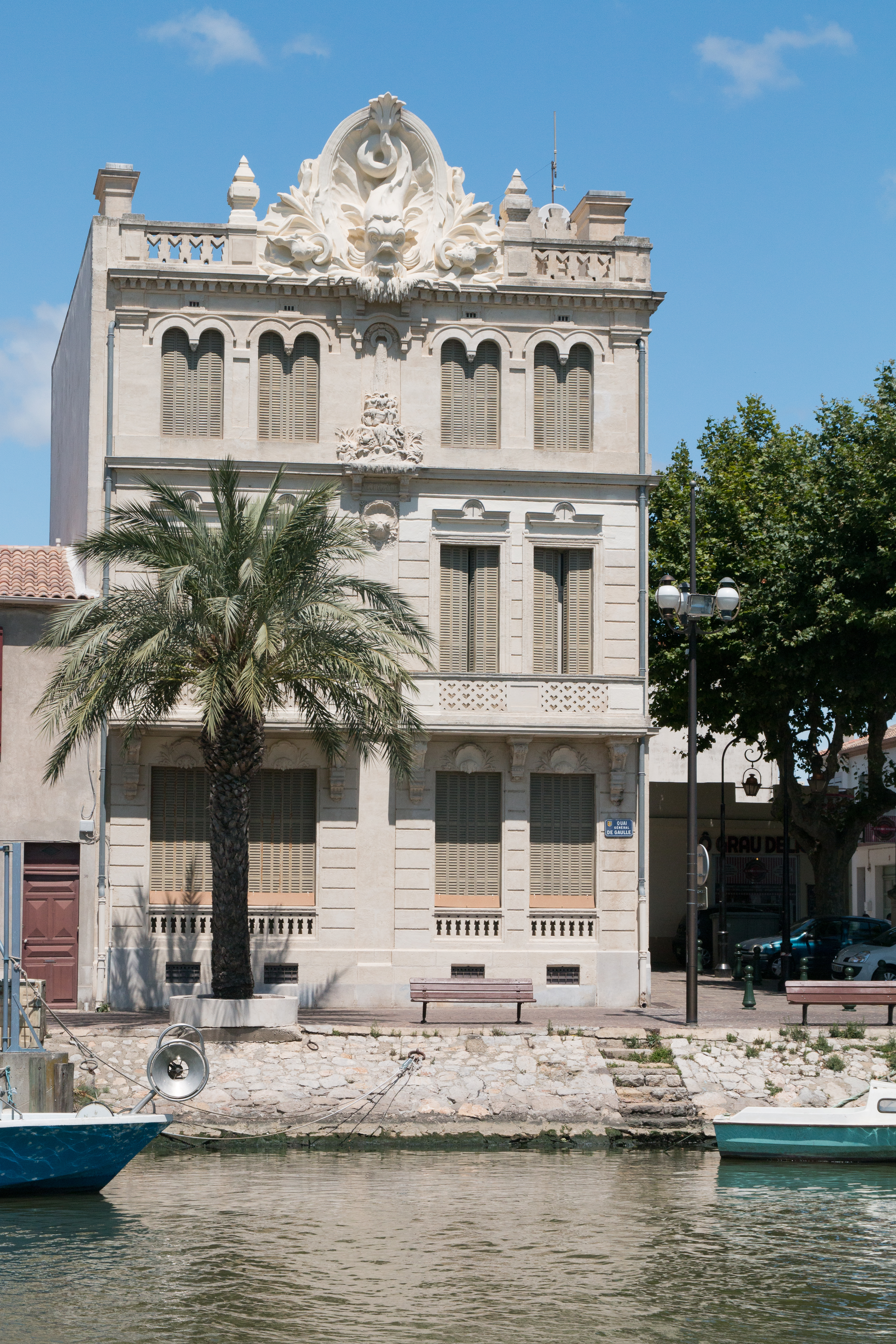 The Triton house, house of a ship-owner, along the gran canal Grau du Roi.